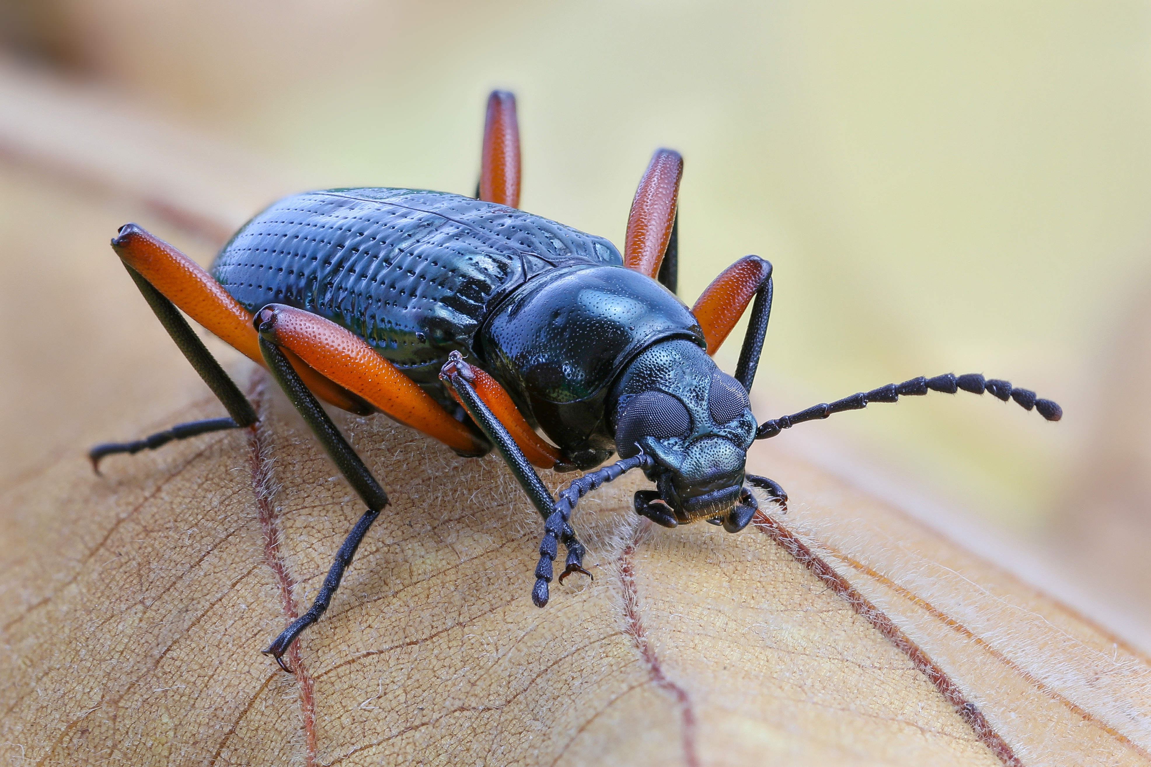 Tenebrionidae Strongylium (Darkling beetle) on a leaf, in Don Det, Laos. Probably a Tenebrionidae erythrocephalum (1). Macro view, focus stacking from 16 pictures. This specimen measures approximately 15 mm (0.59 in) in length (legs excluded).